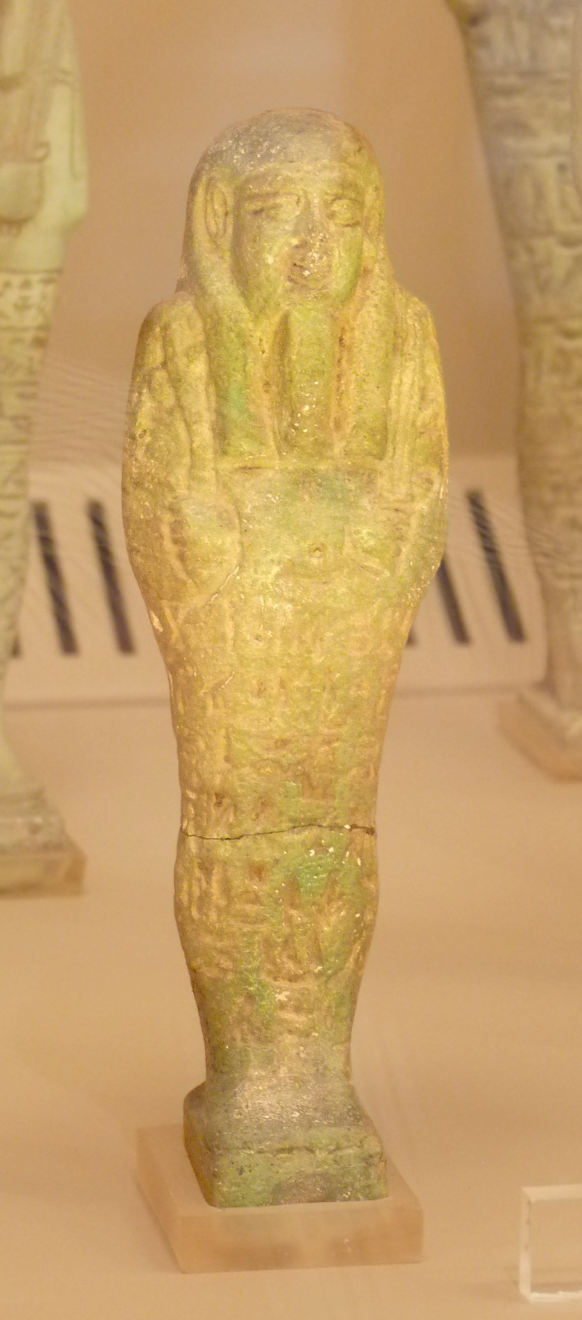 Ushabti of Padisemataui, better known with his hellenized name Potasimto. He was the commander of the Greek mercenaires in Egypt during the 593 BCE military expedition in Nubia ordered by Psamtik II. Faience from Horbeit, 26th dynasty, Late period. Archeological Museum of Bologna (Italy), Palagi coll., EG 2265.